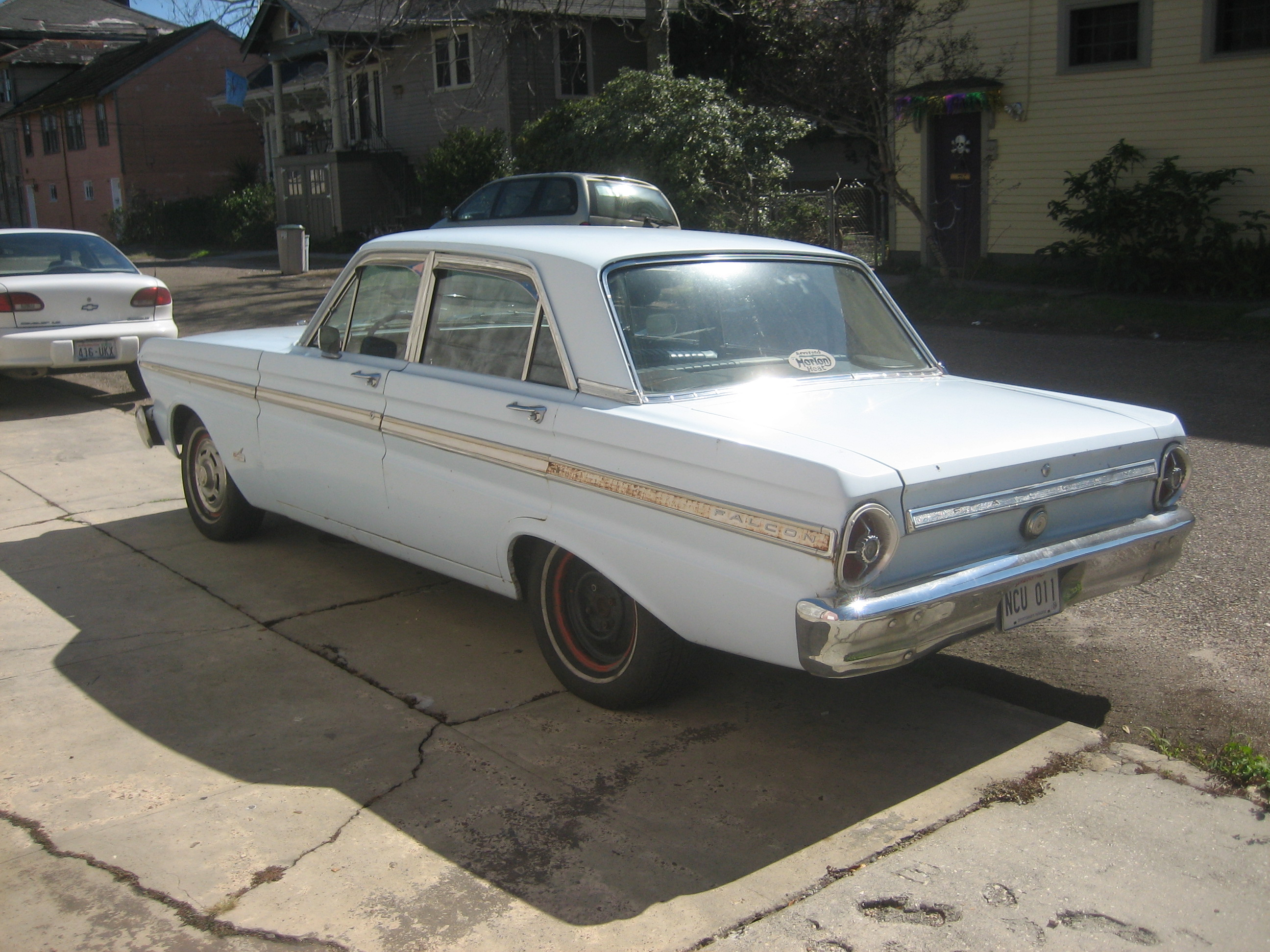 1965 Ford Falcon Futura on street in Algiers neighborhood of New Orleans